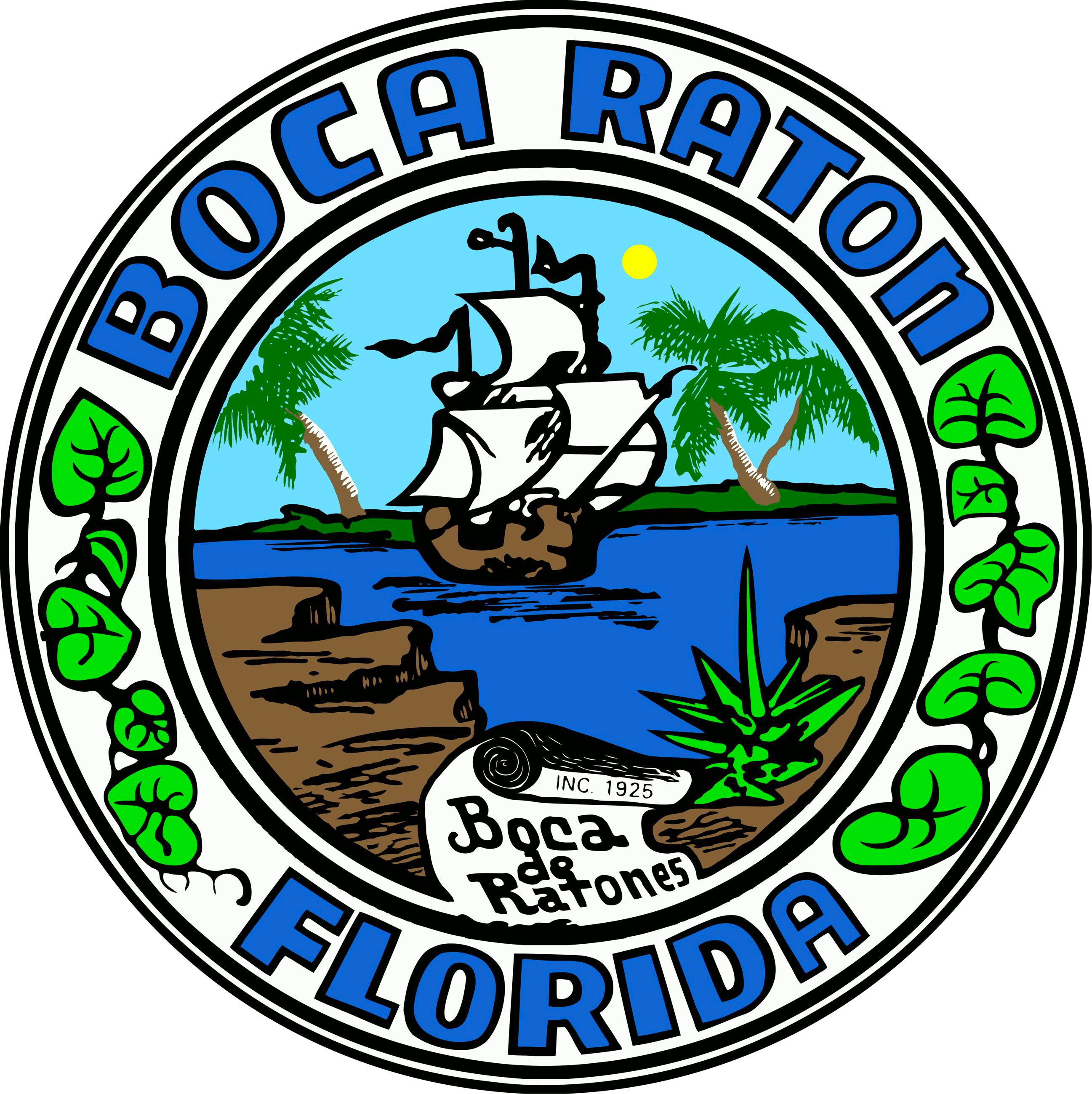 The Boca Raton city seal, adopted in September 1991.